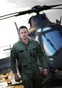 Lt. Col. Robert Karjel of the Royal Swedish Navy, on the flight deck of the HMS Carlskrona in May, 2010, during EU Operation Atalanta to combat piracy off the coast of Somalia.